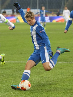 UEFA Europa League match between "Dnipro" and "Pandurii" that took place in Dnipropetrovsk. Final result was 4:1